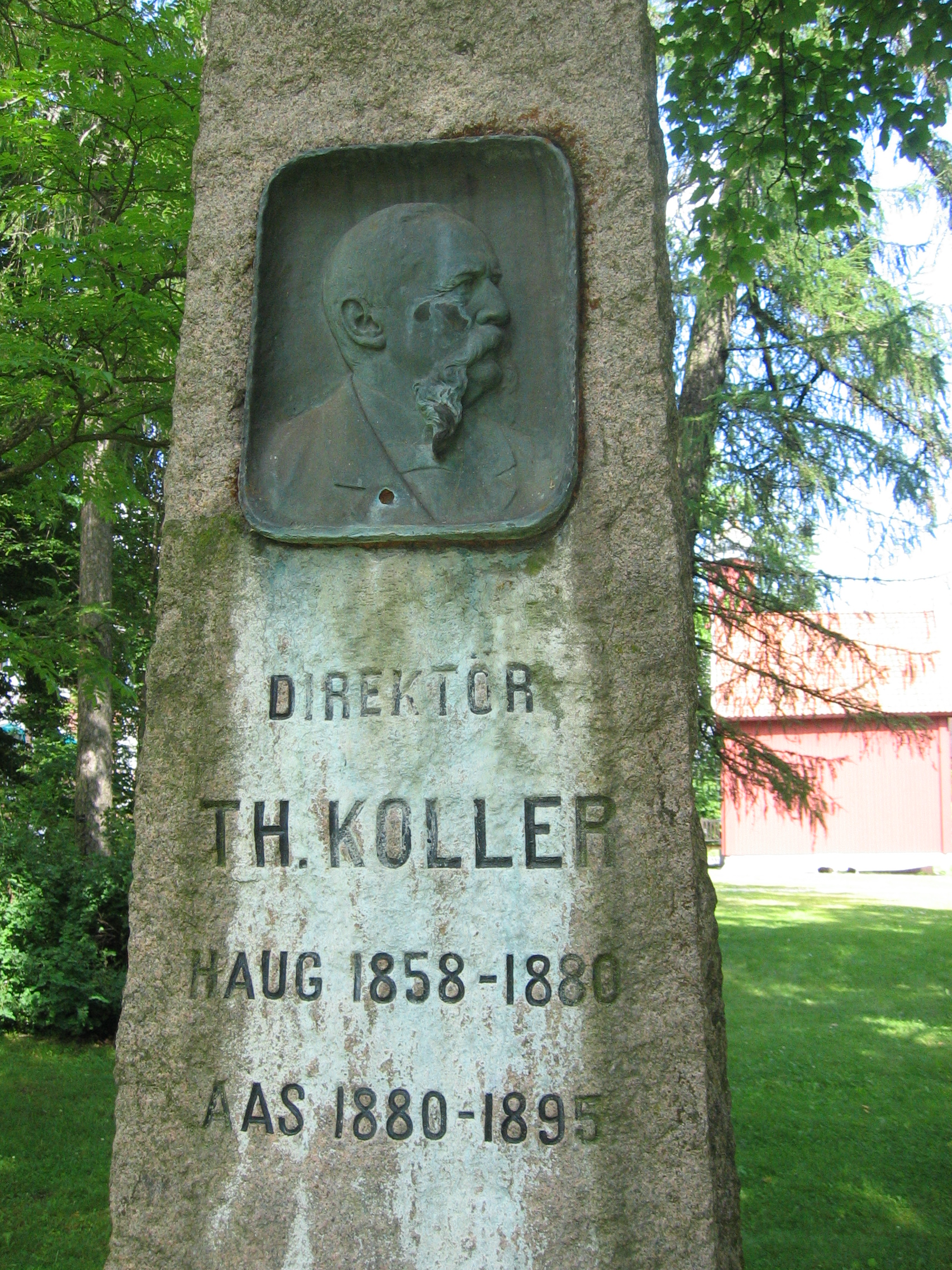 Memorial monument of director Carl Theodor Fredrik Koller, leader of Norges landbrukshøgskole in Haug (1858-1880) and Ås (1880-1895), Norway. The bronze relief is signed Jo Visdal 1910 (1861-1923). The monument was erected on September 25, 1909 at the school's 50th anniversary.